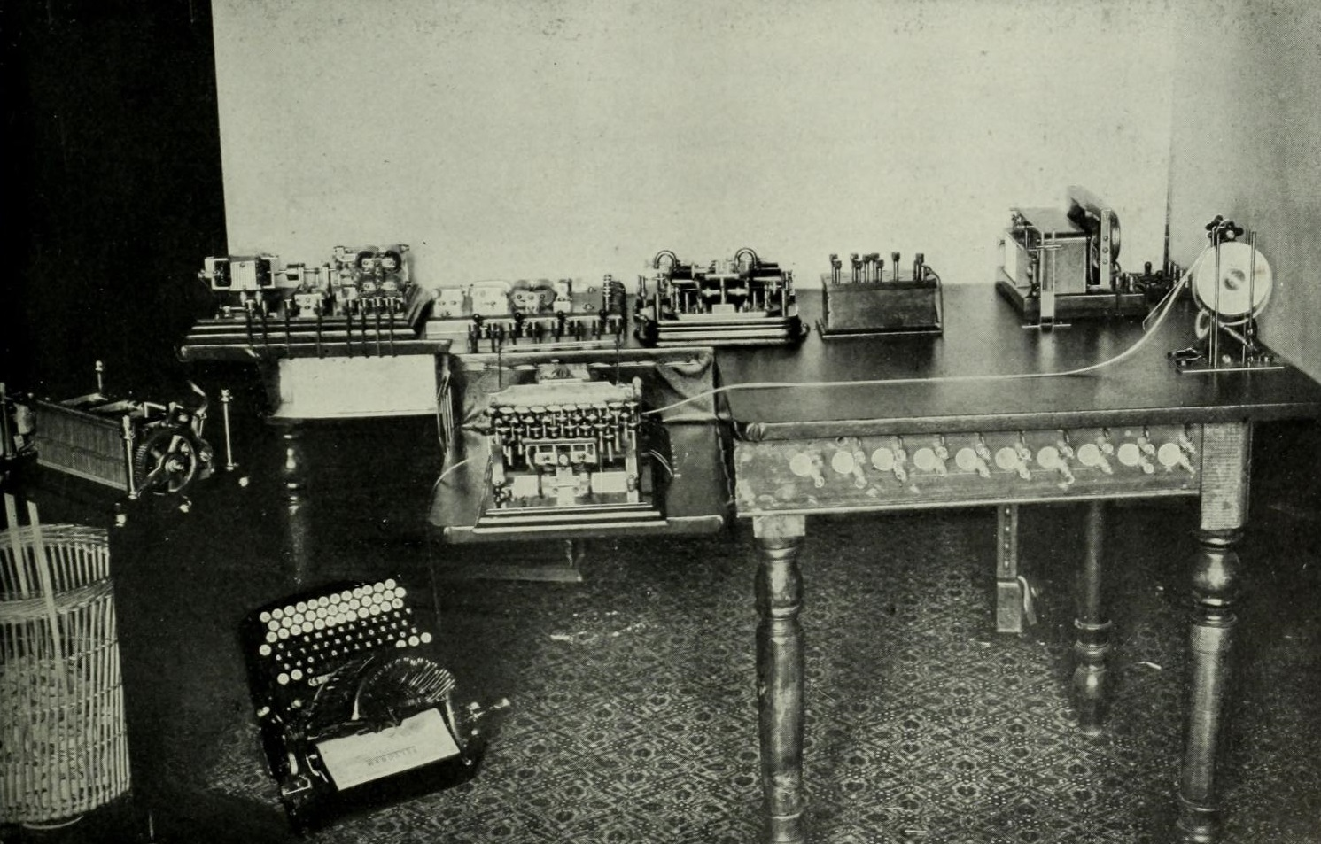 "The Murray Page-Printing Telegraph."